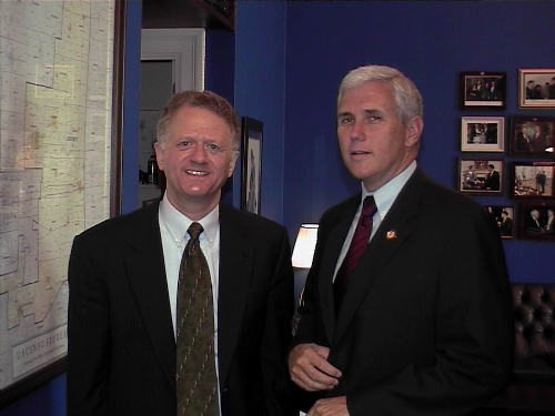 Pence gets a picture with Fort Wayne Mayor Graham Richard. Mayor Richard was in Washington to discuss issues and needs important to the city of Fort Wayne.